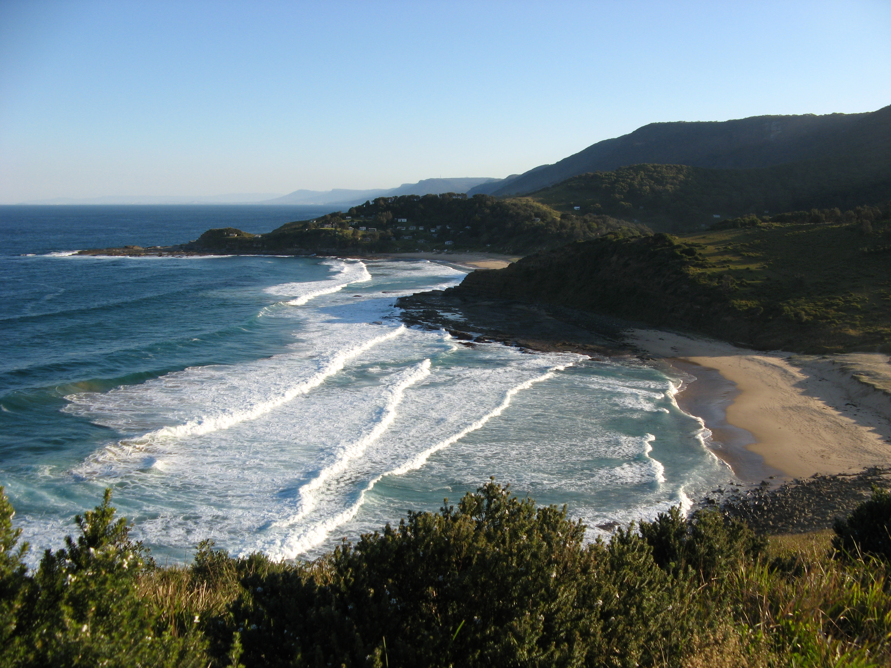 A view of North and South Era beach in the Royal National Park, looking south from Thelma Head. Semi-Detached Point can be seen as the long, thin piece of land visible in the background left of South Era Beach in this image.